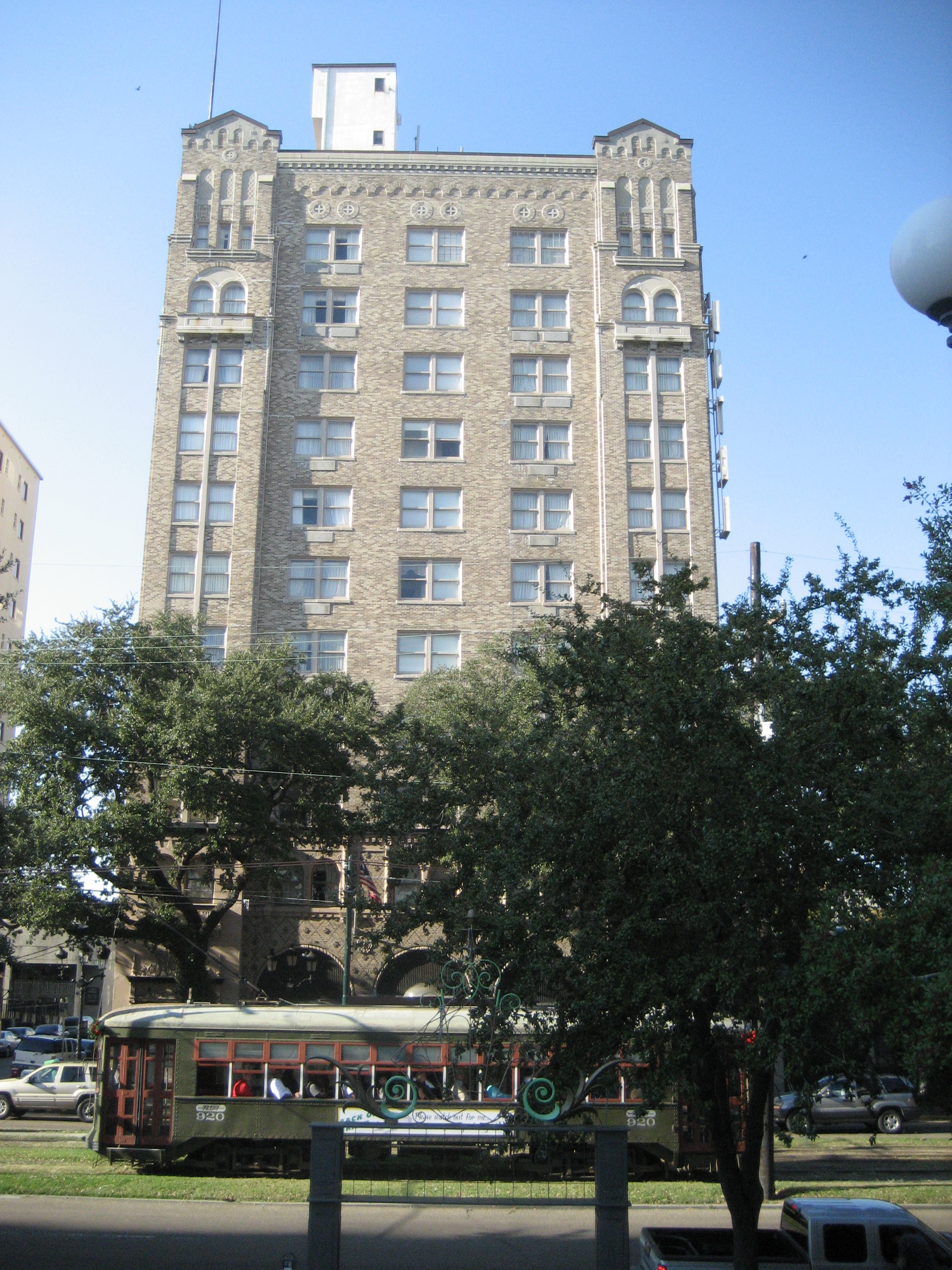 New Orleans: Potchartrain Hotel on St. Charles Avenue. A streetcar runs past the hotel, only recently restored to service on this portion of the Avenue over 2 years after the Hurricane Katrina disaster.